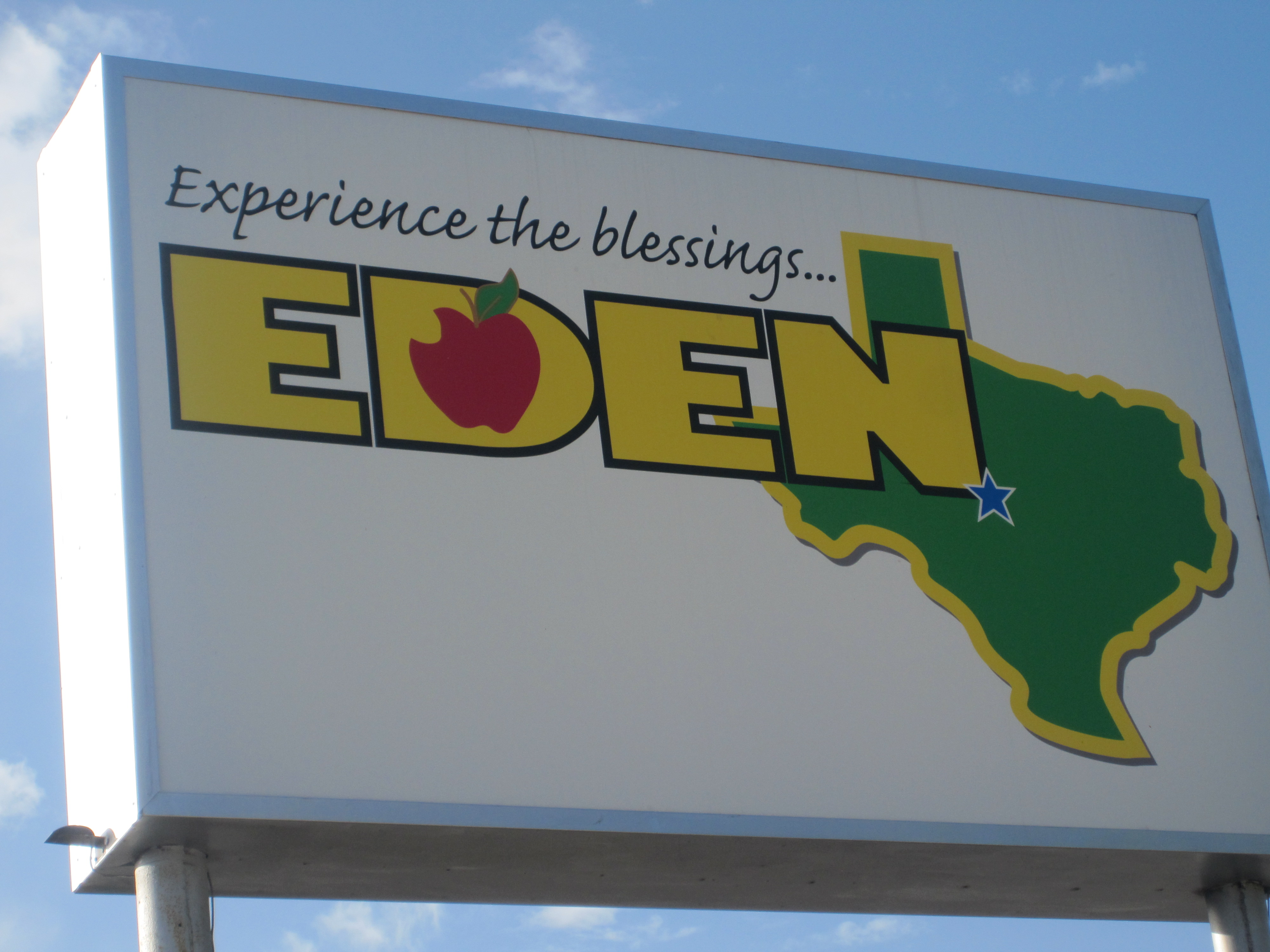 I took photo with Canon camera in Eden, TX.